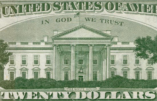 Enlargement of the 20-dollar bill. Enlargements conform with American copyright law if they show only small parts of the bill.